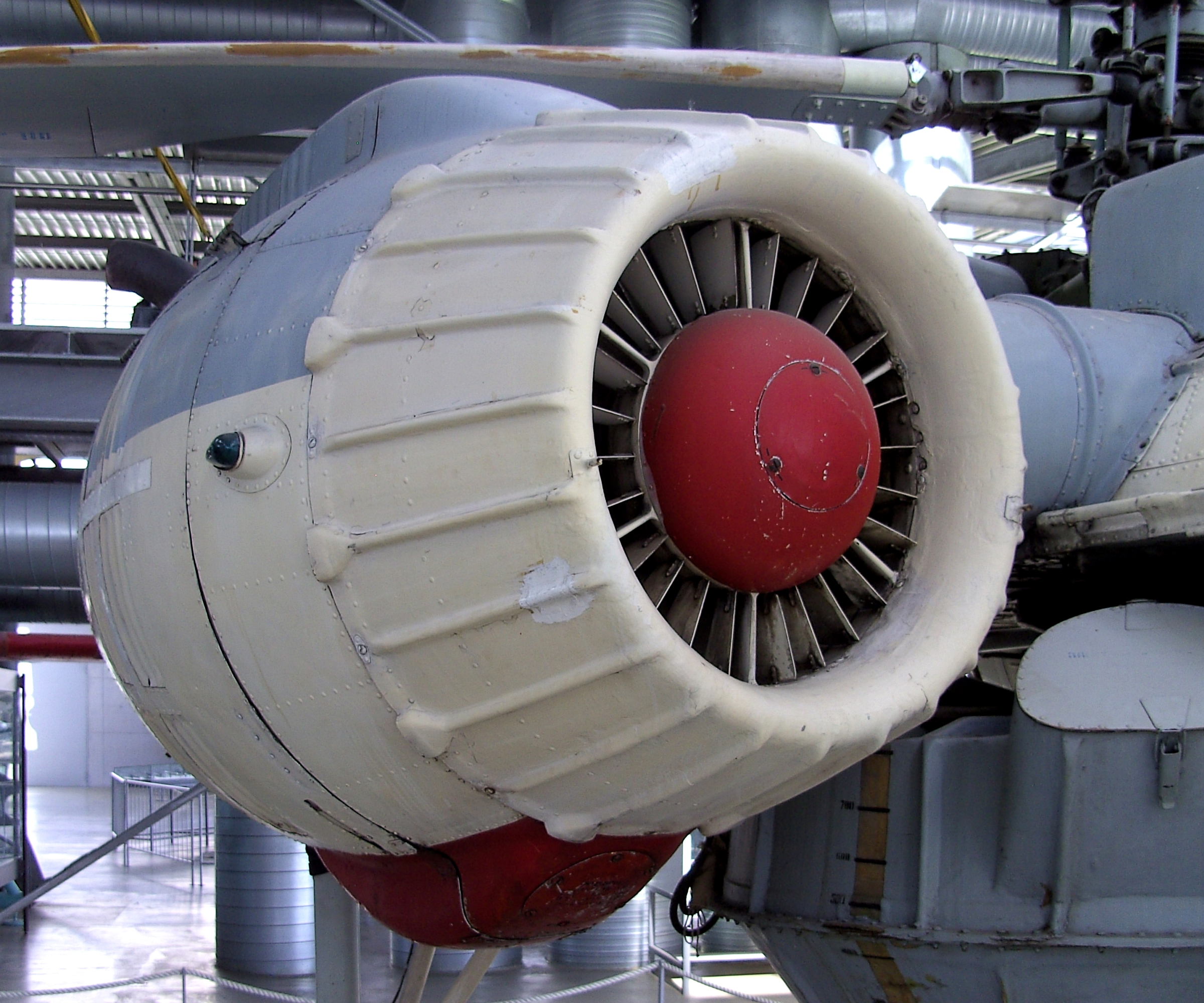 Engine of a Kamov Ka-26 helicopter, displayed in the Flugwerft Schleißheim.